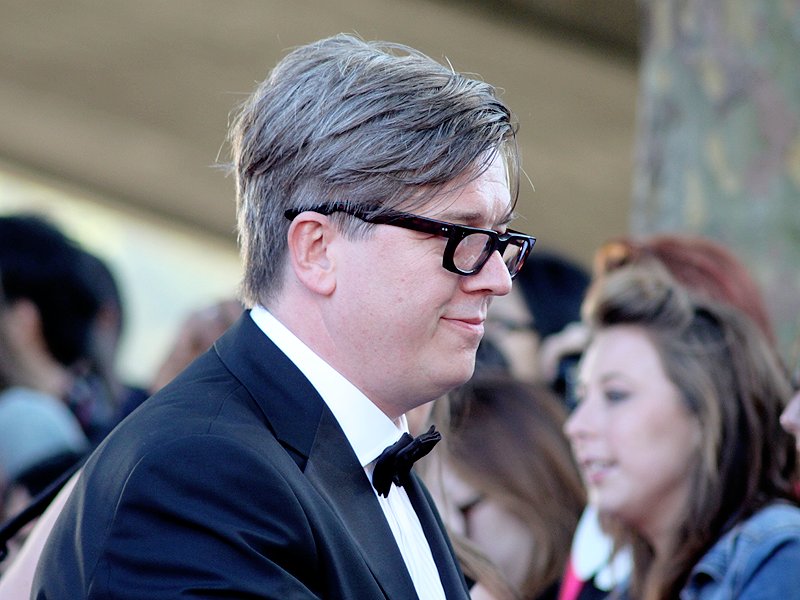 Director Tomas Alfredson at the London premiere of Tinker Tailor Soldier Spy. BFI South Bank, Tuesday 13th September 2011